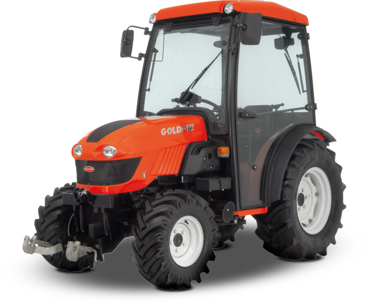 Ronin